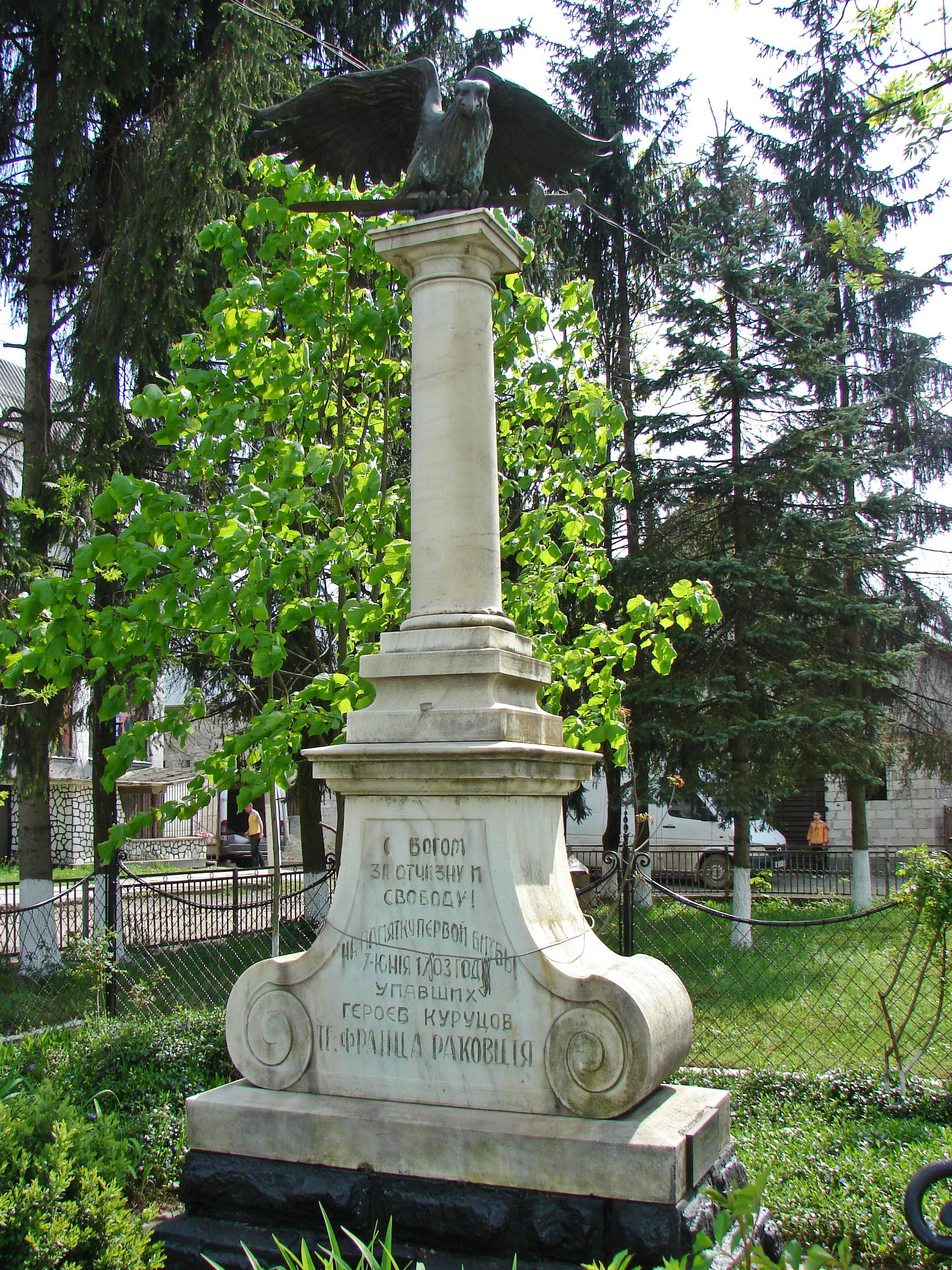 kuruc